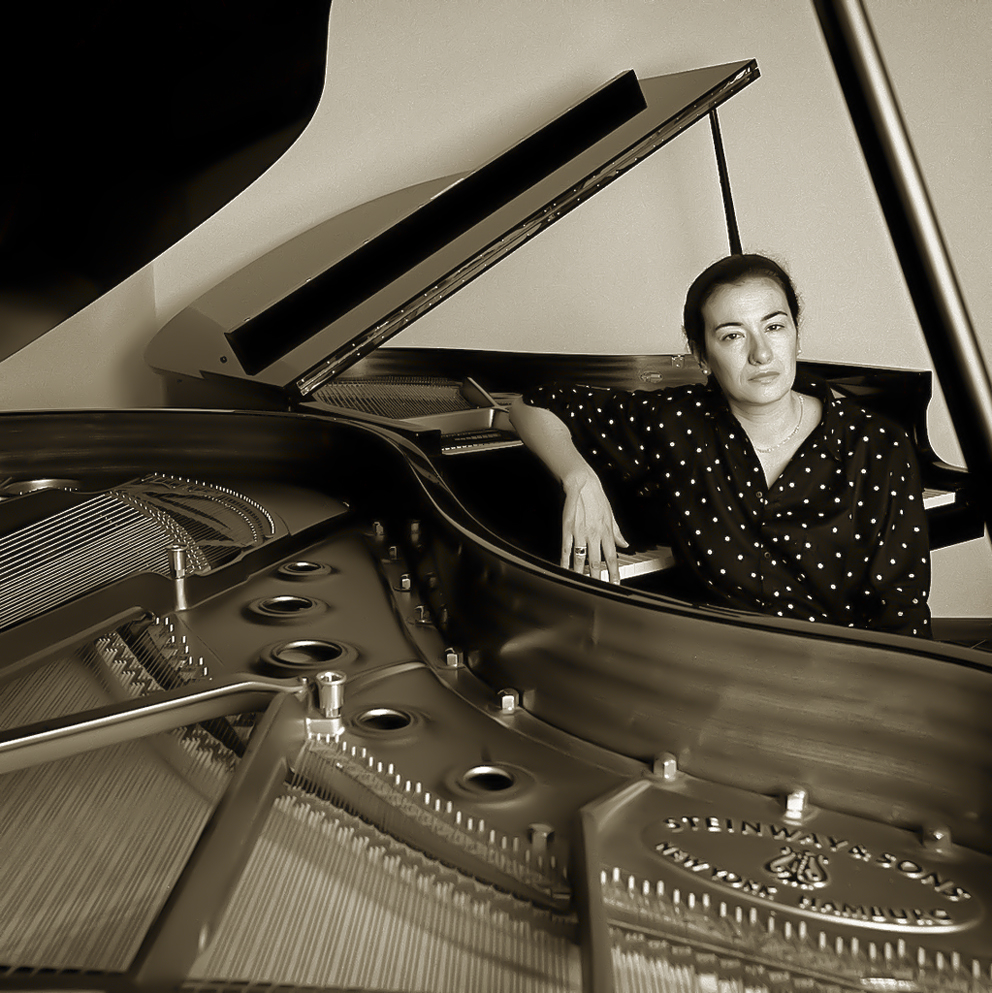 Portrait of Laura De Fusco